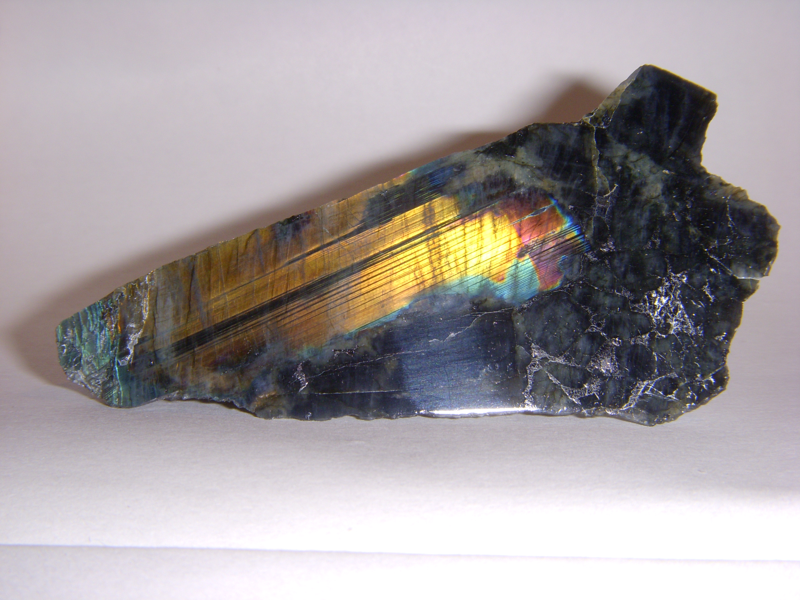 A specimen of spectrolite. Bought on a tourist market place in Helsinki.